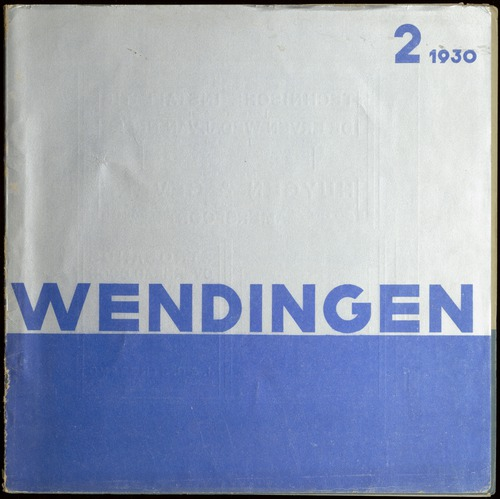 Front cover of Dutch art magazine Wendingen 1930-2. Design by L.C. van der Vlugt.